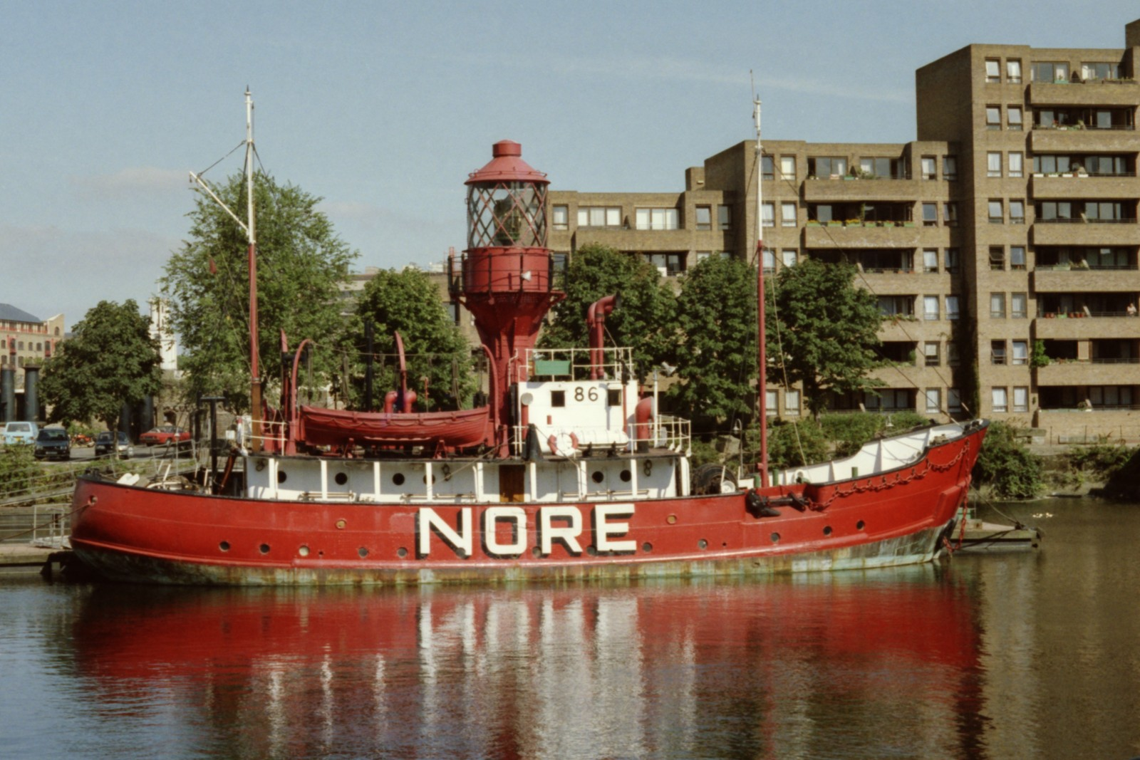 Lightship Nore in Saint Katharine Docks, London, UK